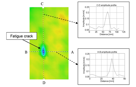 Growth of slot in fatigue test